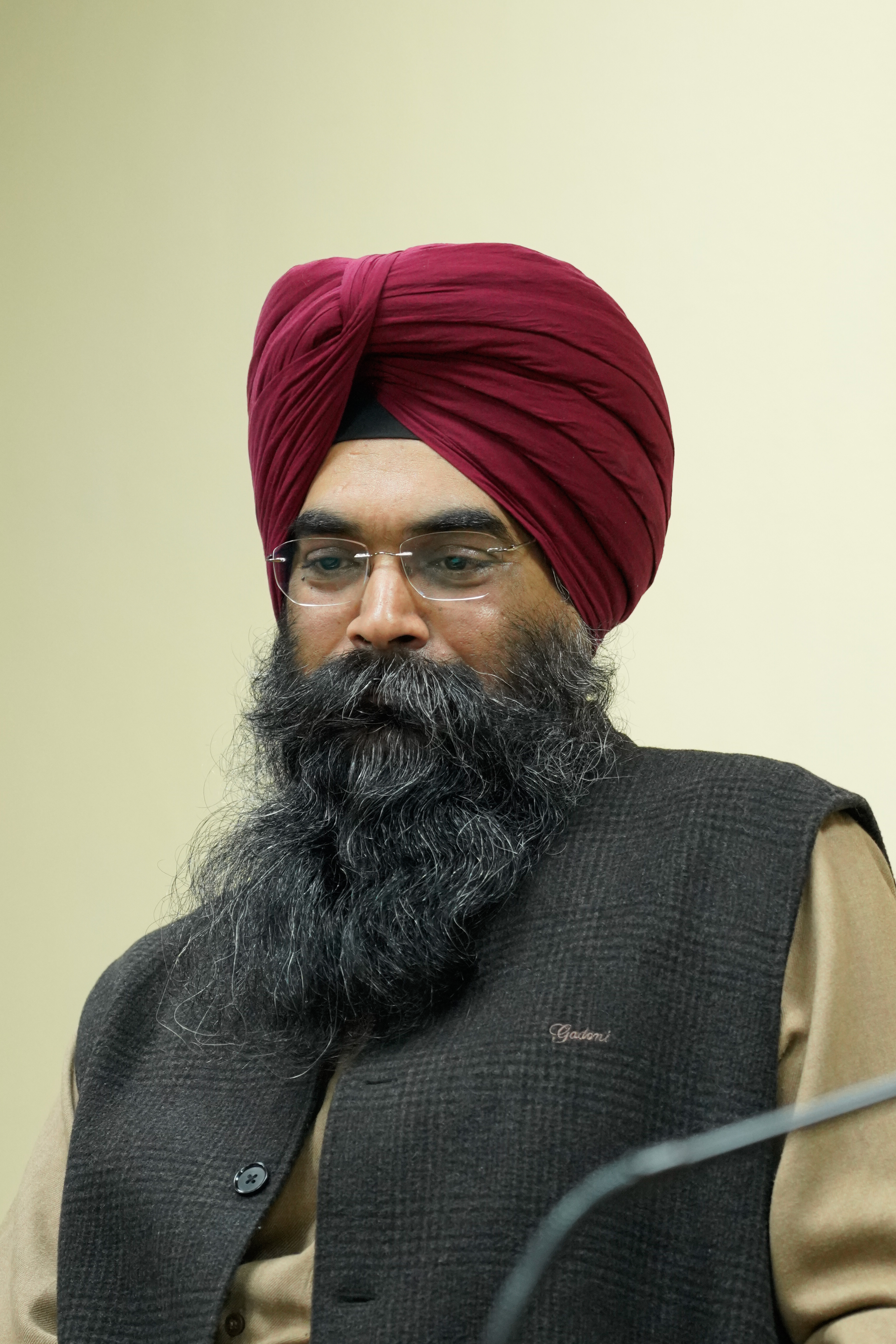 Sumail Singh Sidhu at Bhai Vir Singh Sahitya Sadan - 17 Feb 2018